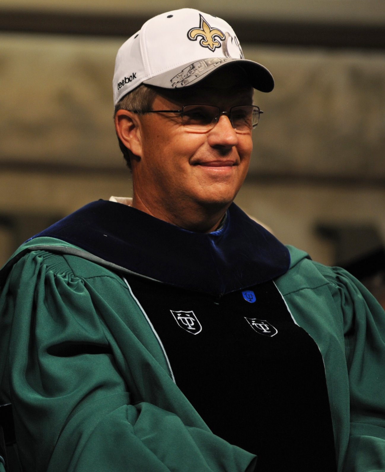 Gregg Williams at the 2010 commencement ceremony at Tulane University.